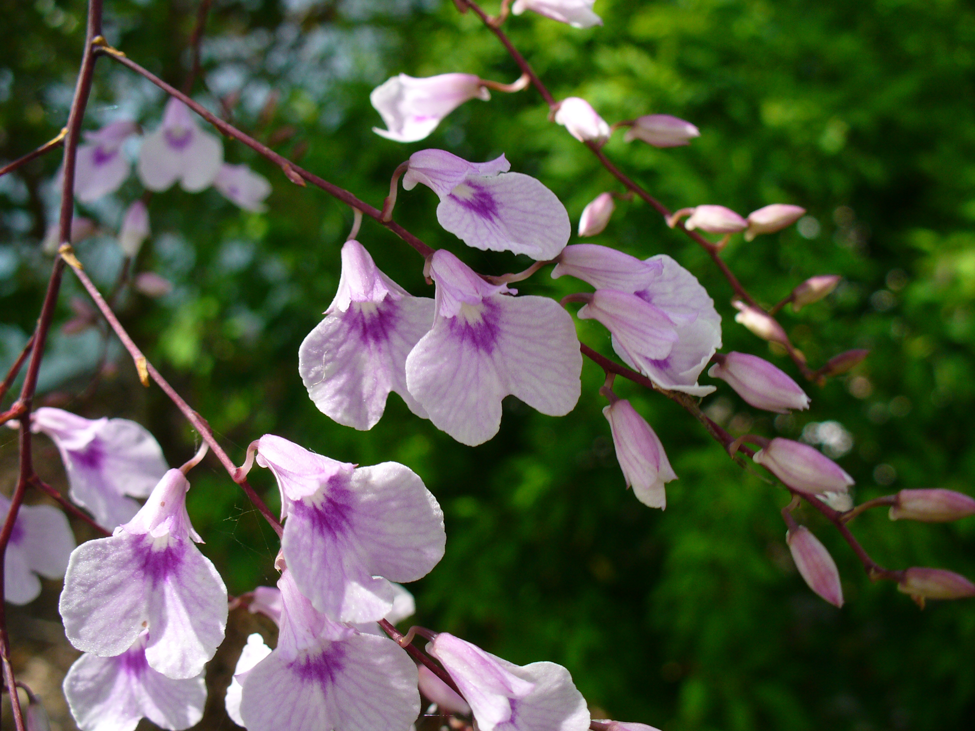 Ionopsis utricularioides. South Miami, FL, USA